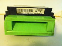 A typical United States bill validator with a green bezel.